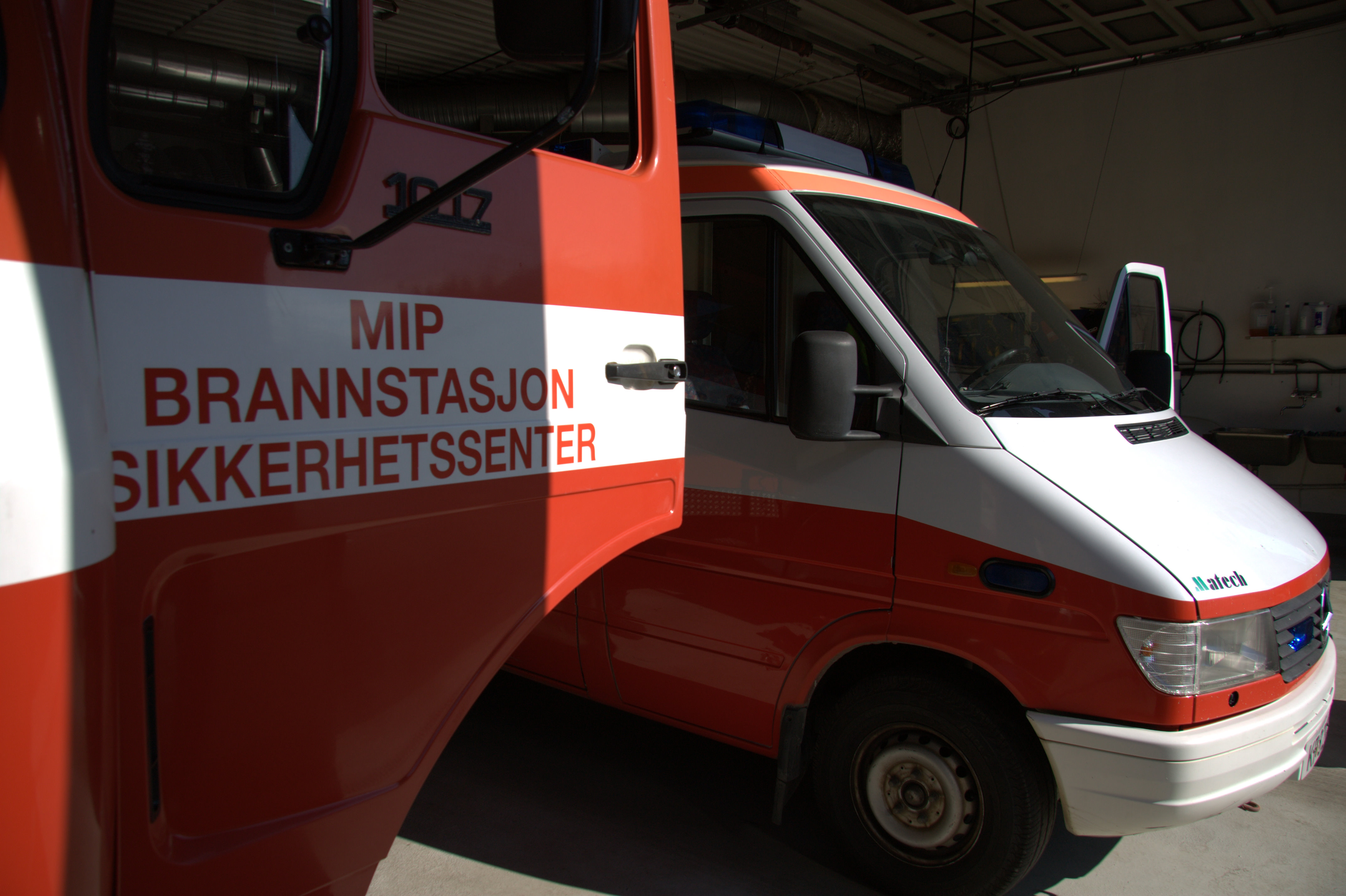 Mo Industripark AS security center